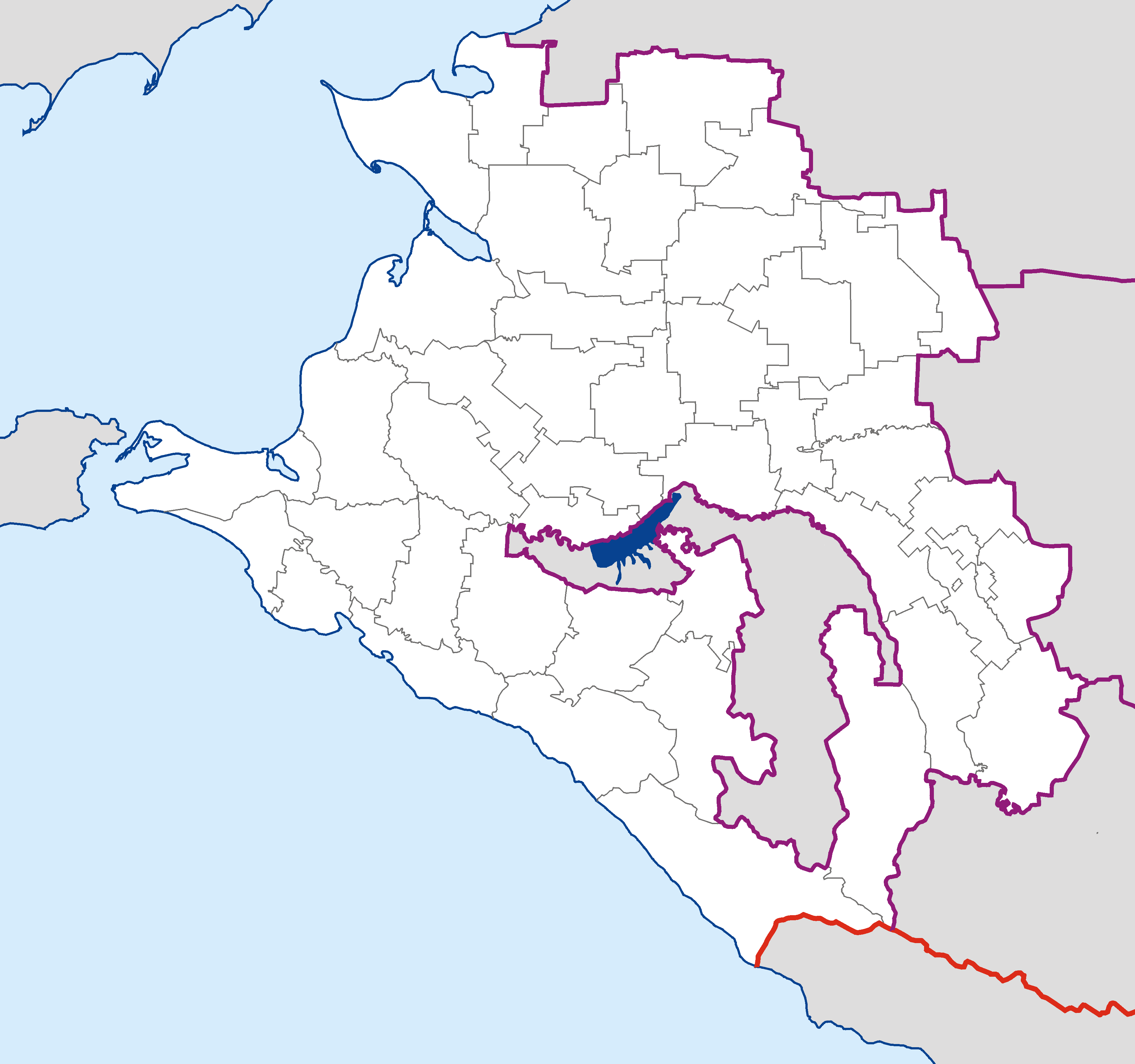 Administrative map of Krasnodarsky krai (Russia) in Mercator projecton cropped by 1 degree lines (36° - 42° E, 43° - 47° N).